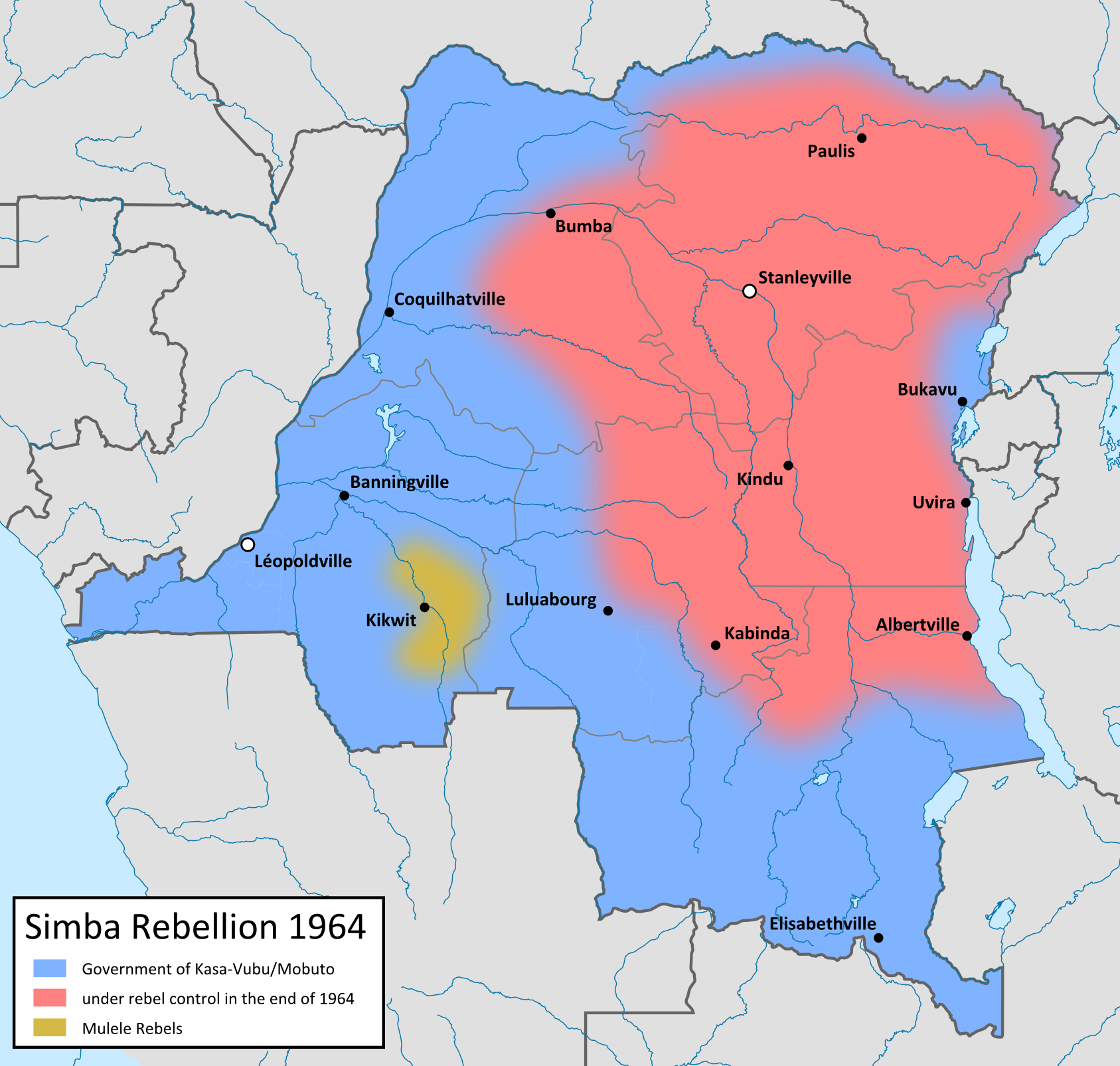 Map of Congo in 1964 (Simba Rebellion), in English.